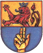 Coat of Arms of Teveren